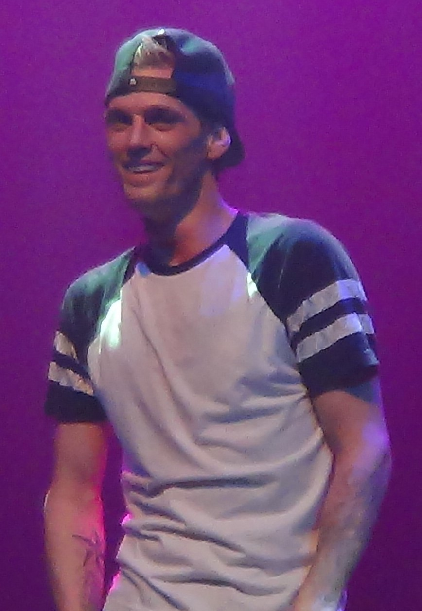 Aaron Carter performing at the Gramercy Theatre in New York, NY. Photo by Peter Dzubay.